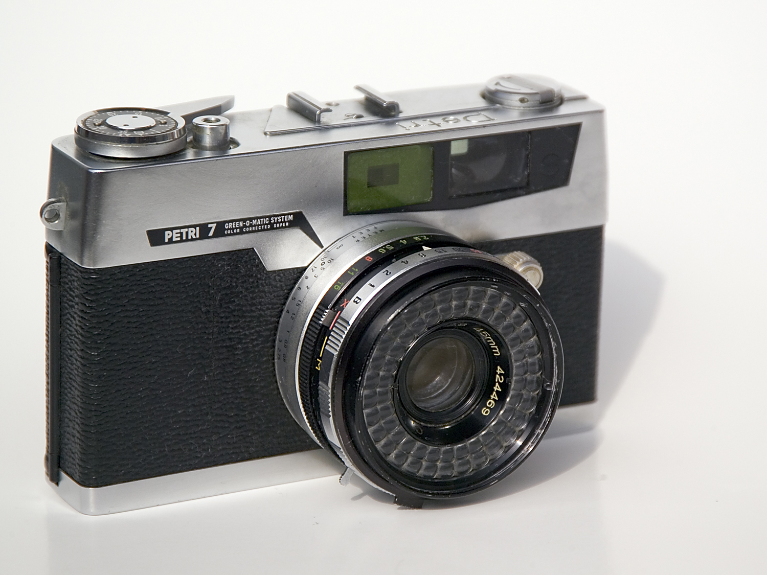 Petri 7 rangefinder camera. I took this photo.